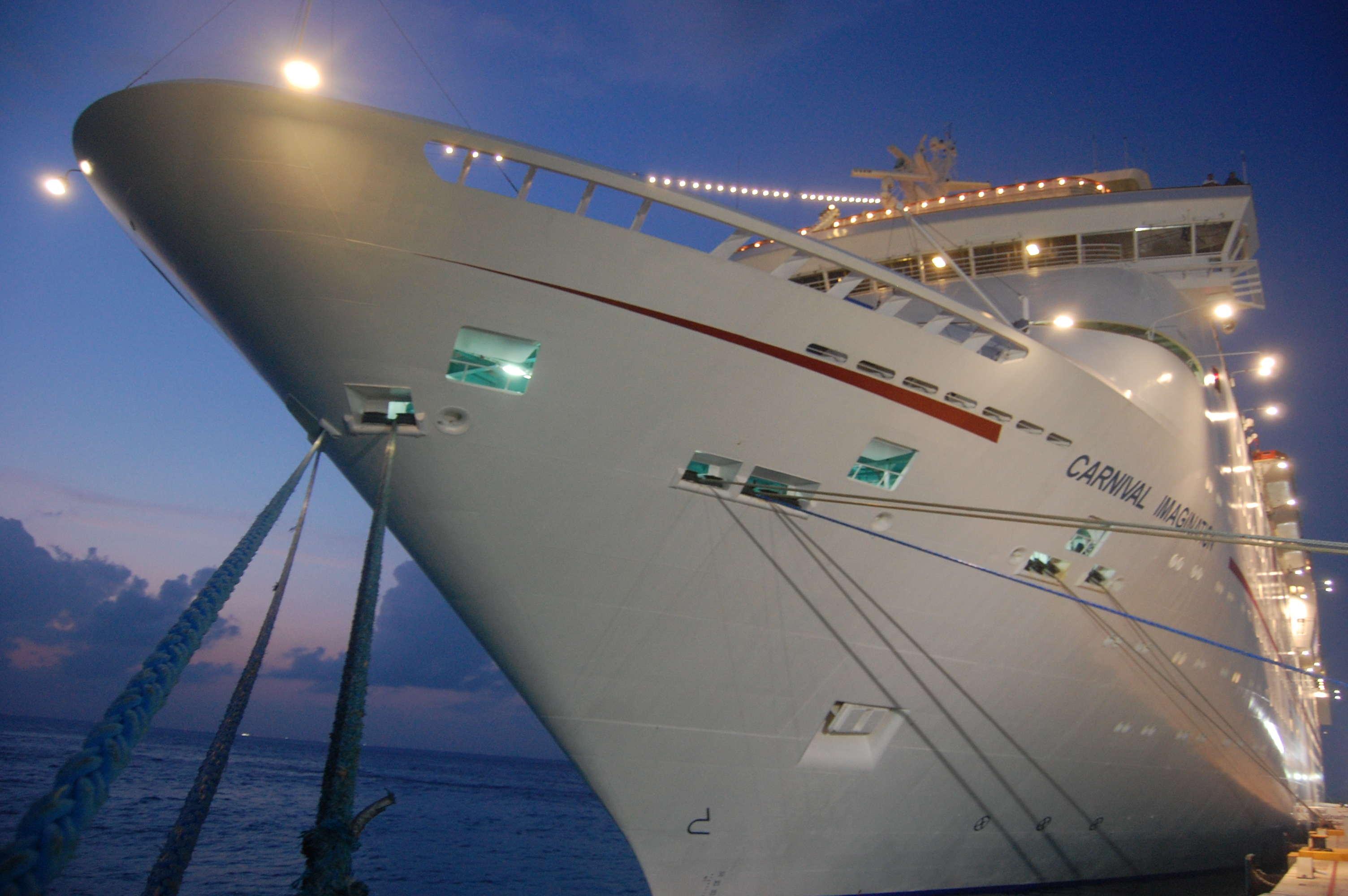 Carnival Imagination Docked